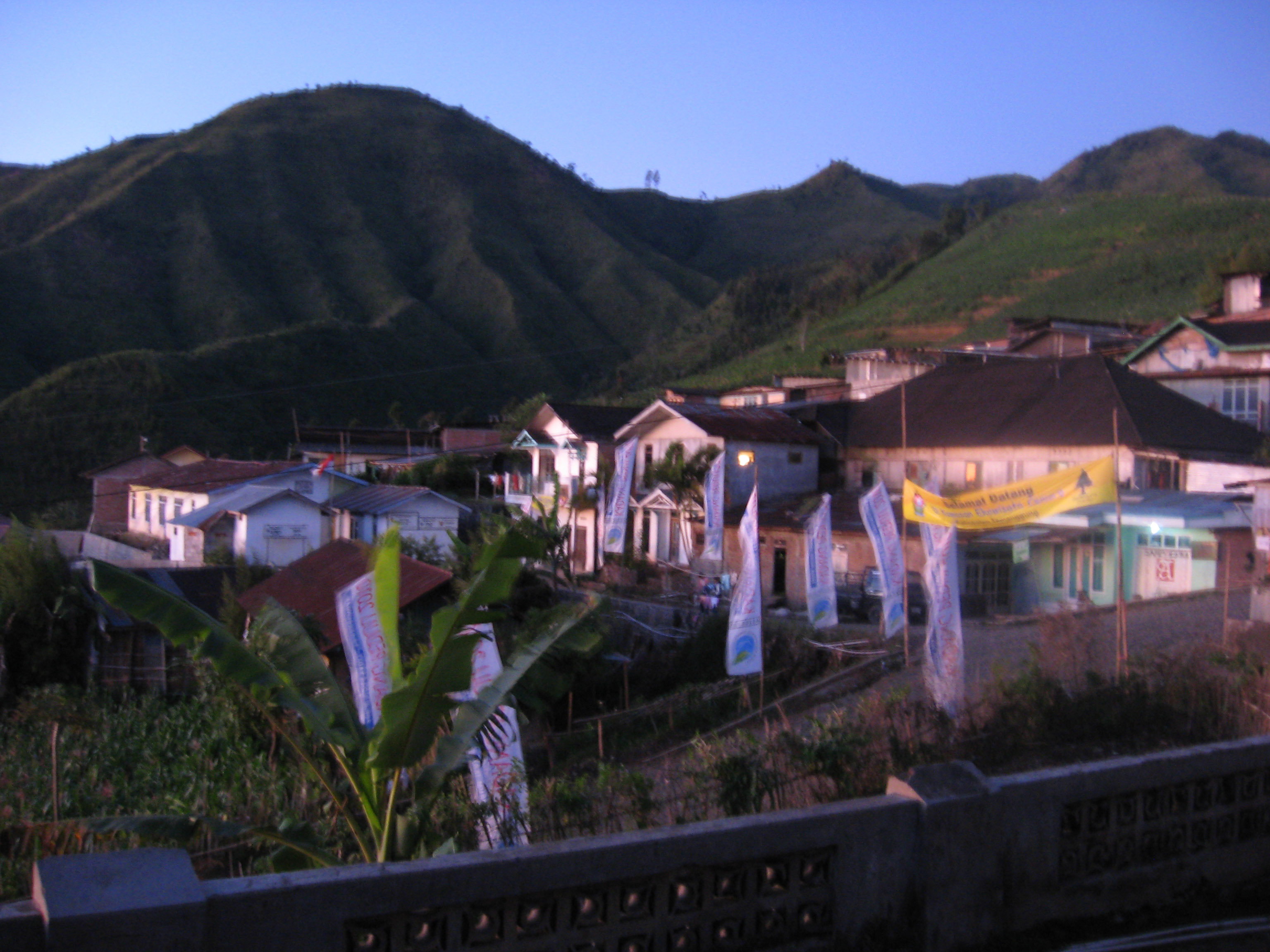 A sunrise at Cemoro Village, in Temanggung Regency, Central Java. The soft lighting from the sunrise gives a slightly blurred, subdued look to the buildings